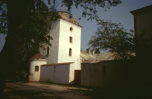 Krustpils castle